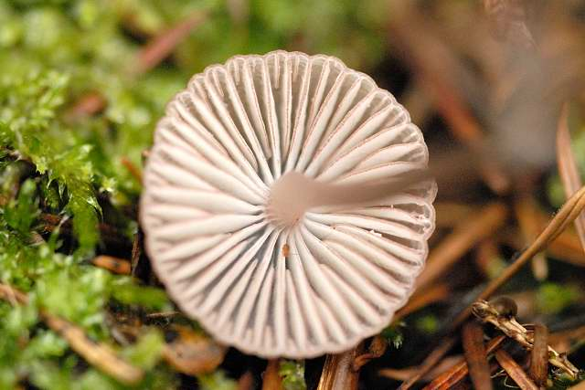 Mycena rosella from Commanster, Belgian High Ardennes .